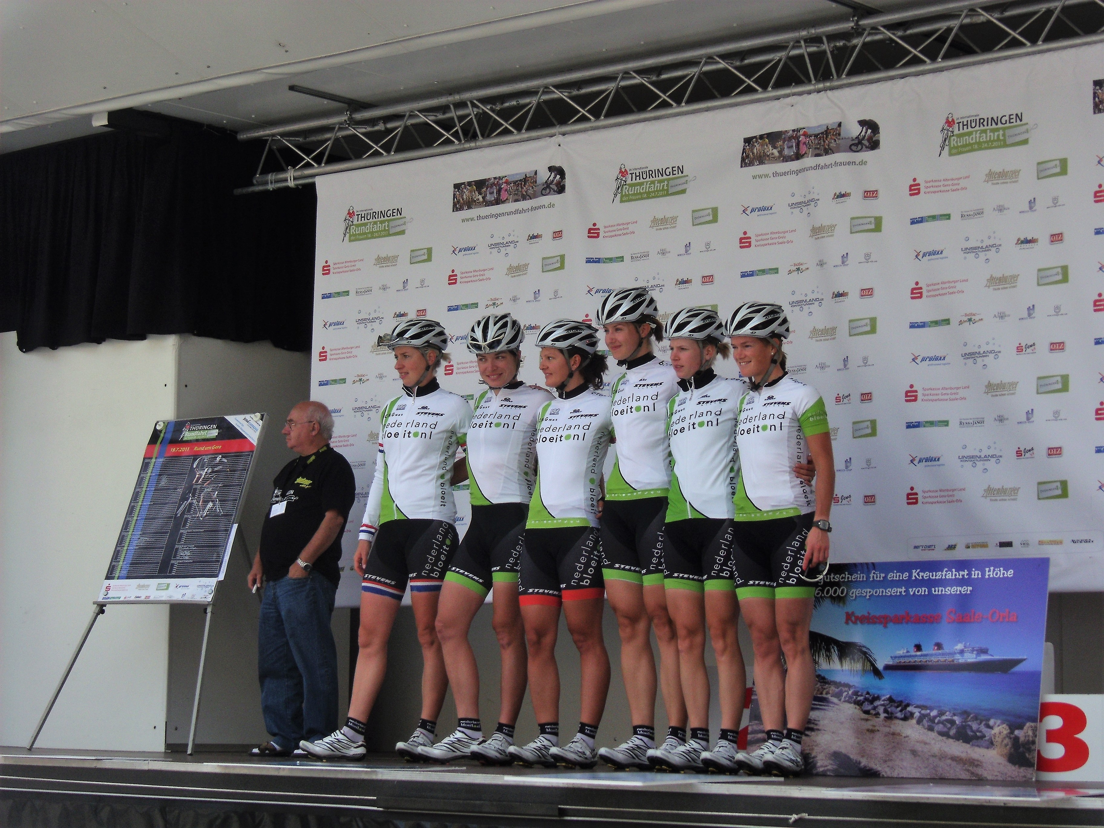 1st stage "Around Gera" of the 2011 Internationale Thüringen-Rundfahrt der Frauen (International Women's Tour of Thuringia): Presentation of the teams at the market square in Gera – Team Nederland Bloeit